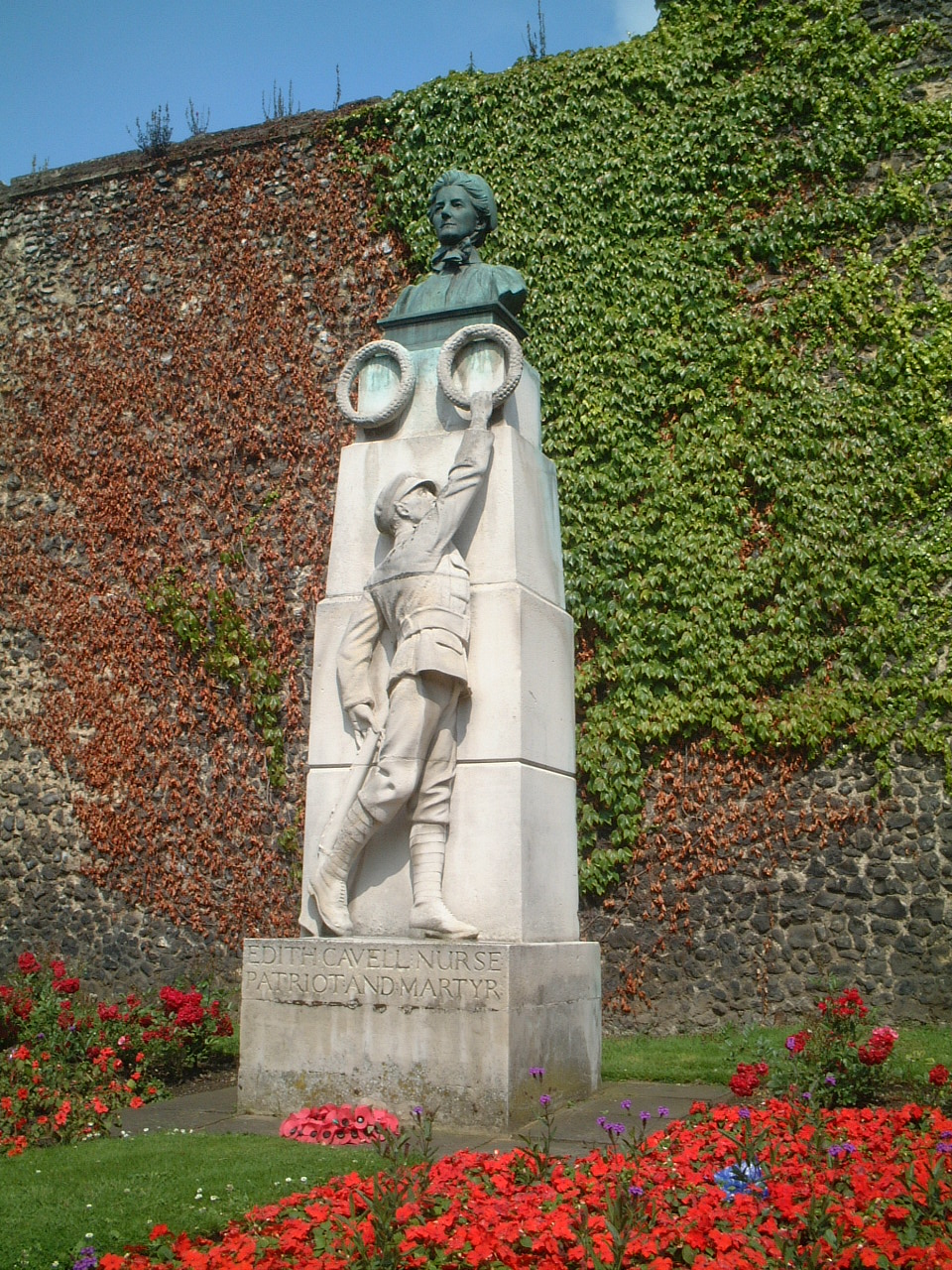 Monument to Edith Cavell, situated outside of the Protestant Cathedral in Norwich, England.